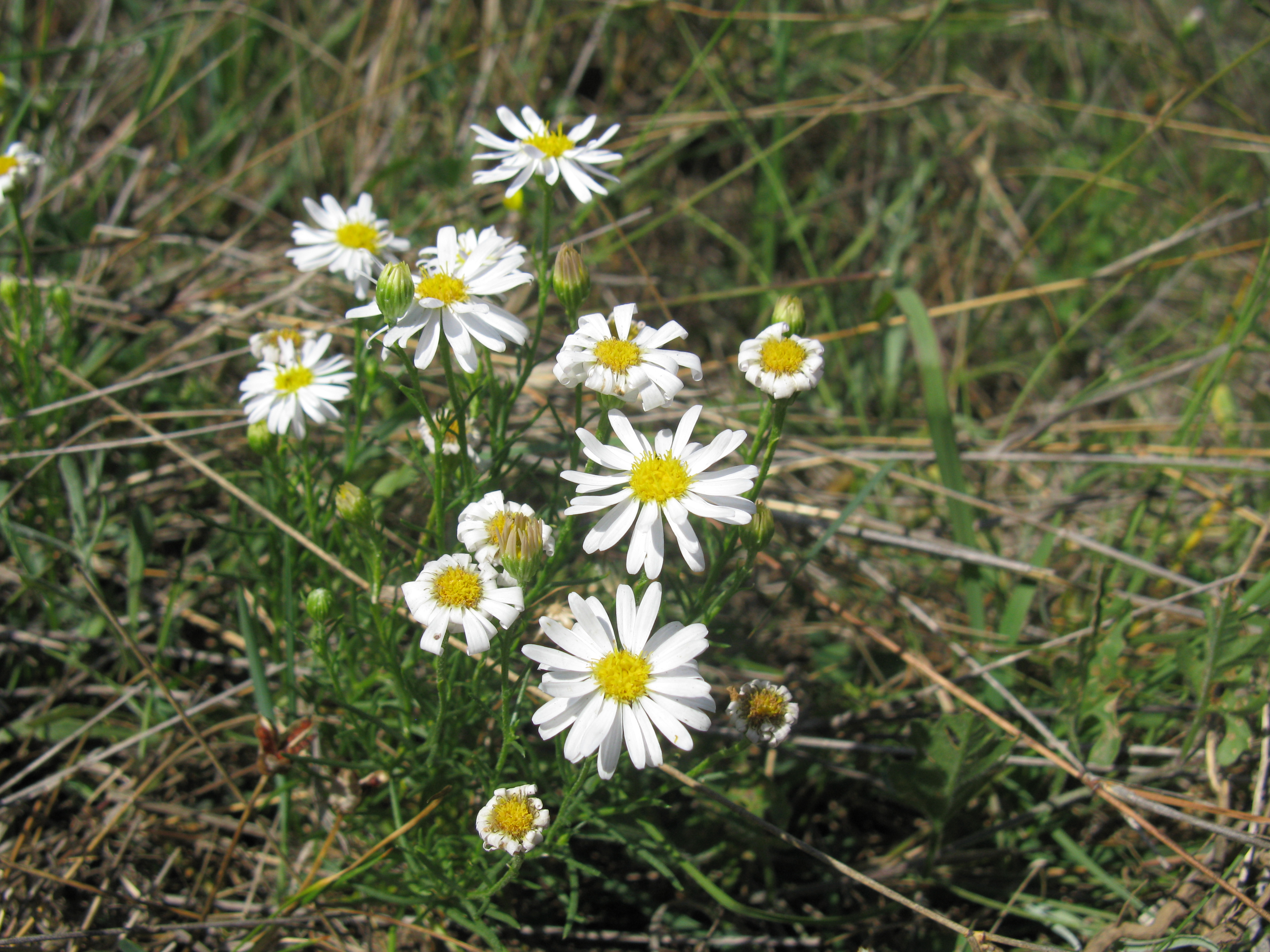 Native, yearlong green, perennial, sparsely hairy herb to 50 cm tall. Leaves are linear, to 4 cm long, 1 mm wide and nearly hairless to hairy. Ray florets are white or purple and 5–9 mm long. Achenes are pubescent, with a pappus of many, free, uniform bristles 2.5–4 mm long. Disc florets are 2.8–4 mm long, glabrous; Achenes have a pappus of many short bristles 0.6–1.2 mm long and 2–6 longer bristles 2.2–3.1 mm long with barbs denser apically. Flowering is throughout the year. Grows in low shrubland, sclerophyll forest and woodland on a wide variety of soils; west from the Singleton area.